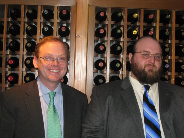 A picture of Dr. Kevin Hassett and Keith C. McCormic from a McCormic fundraiser at Chandler's Tavern in Deerfield, MA.